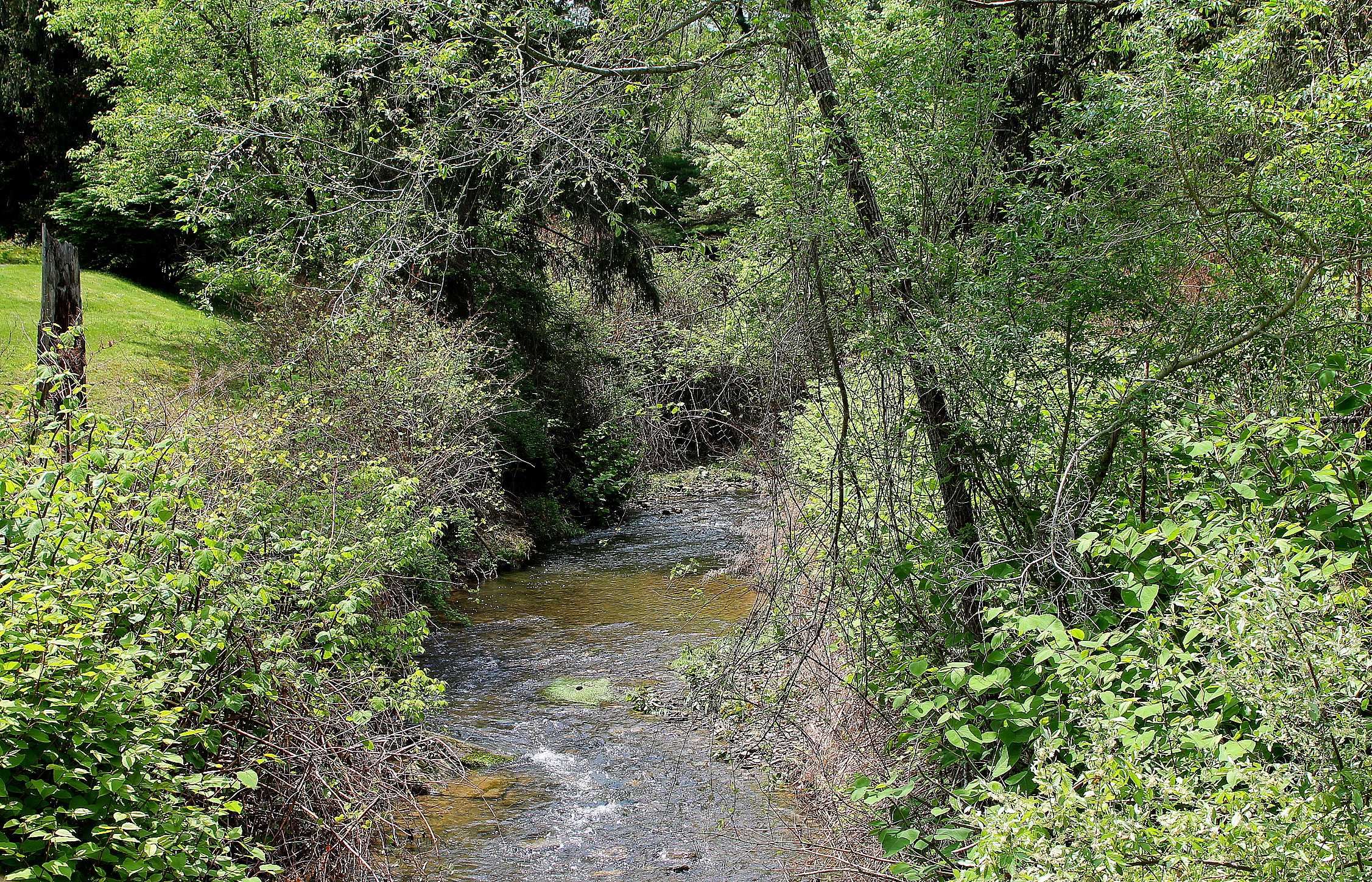 Montour Run looking upstream near its mouth (close to the village of Rupert)